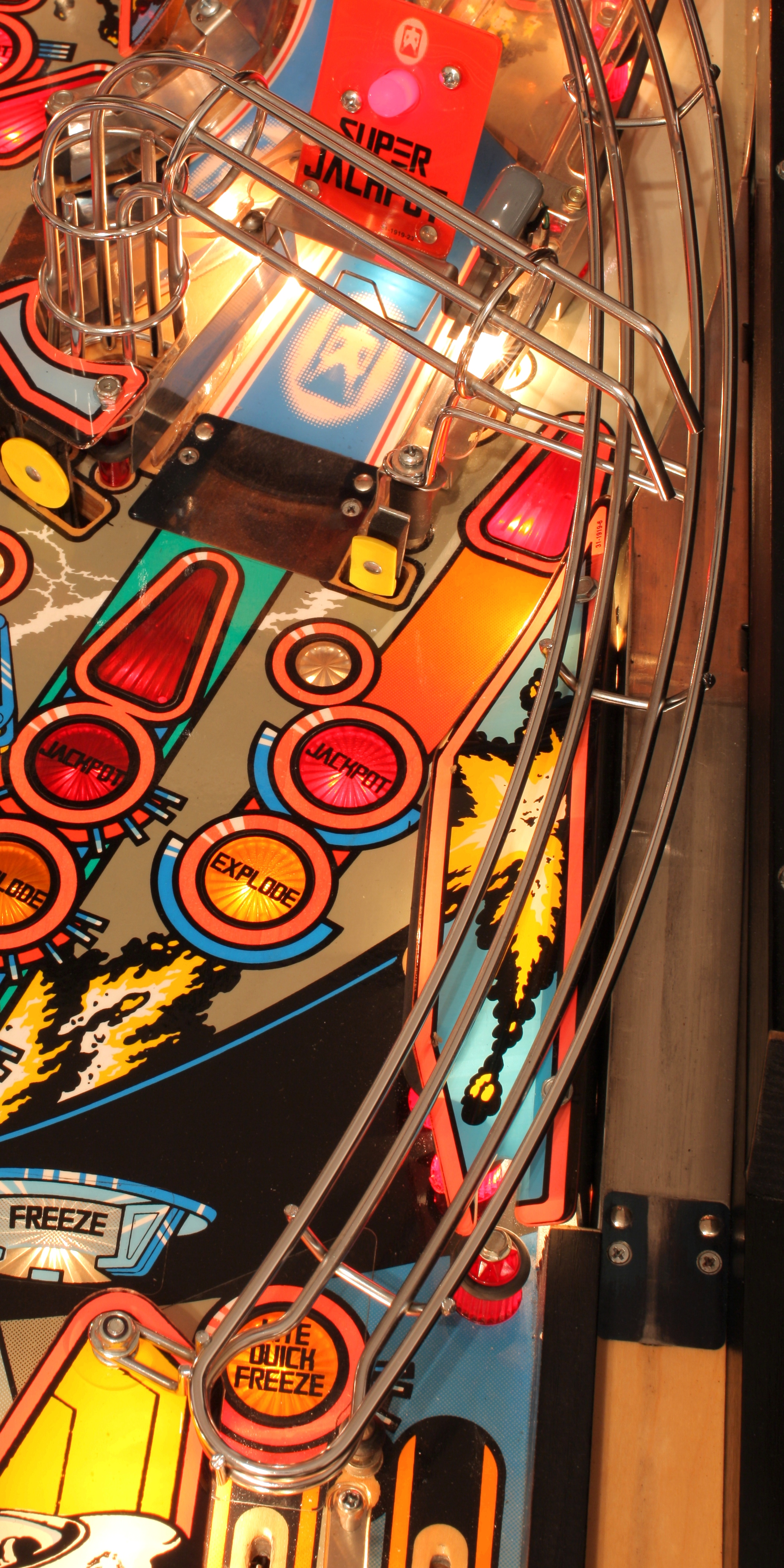 Right Wire Ramps of the Williams pinball game "Demolition Man".